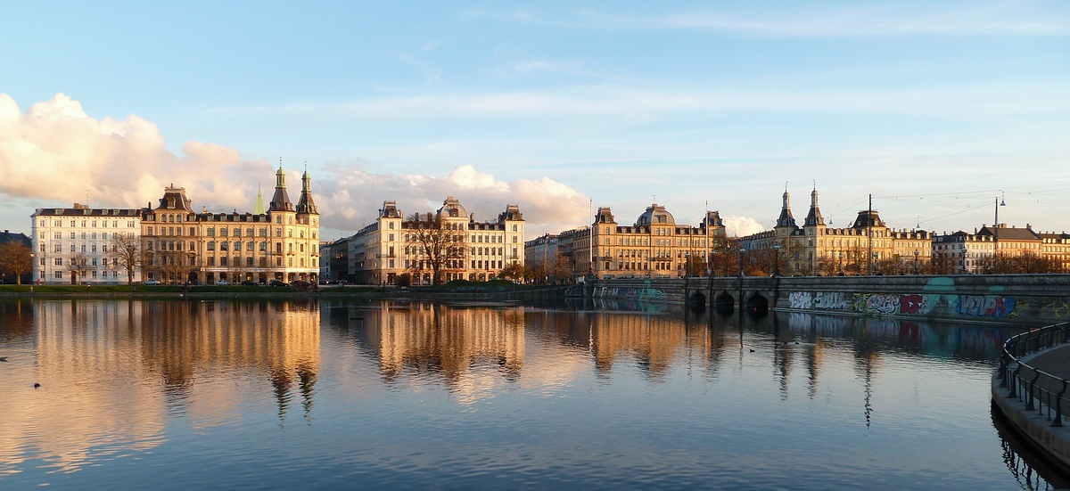 The Søtorvet residential development and similarly named junction with Sortedam Sø and Dronning Louises Bro in the foreground